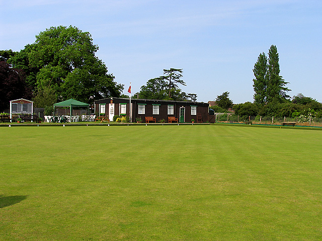 Burghfield Bowls. This bowling club is situated in the south eastern corner of the grid square.